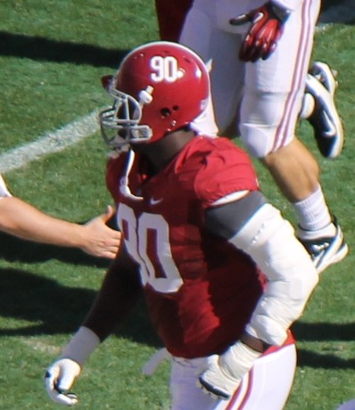 Alabama Crimson Tide defensive end, Quinton Dial, in 2012.